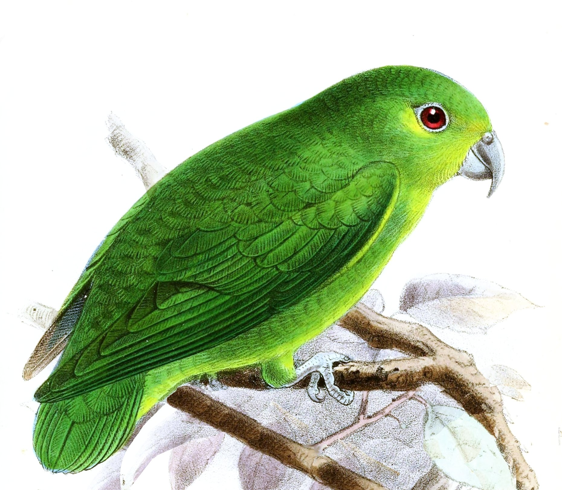 Brotogerys panychlorus =Nannopsittaca panychlora (color green)